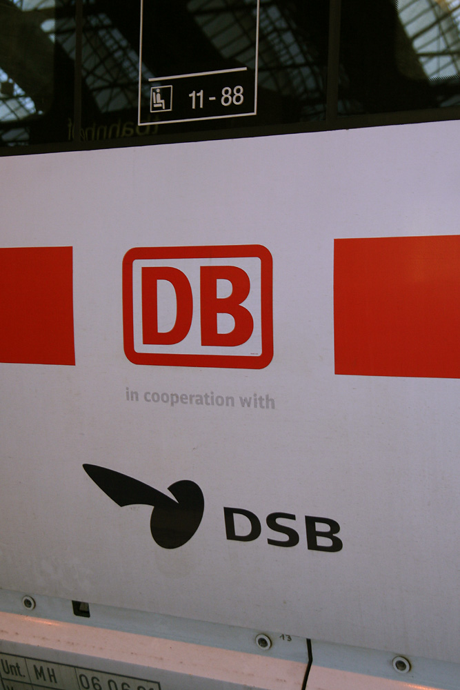 Logos of Deutsche Bahn and Danske Statsbaner on an ICE-TD train (modified for the service between Germany and Denmark)